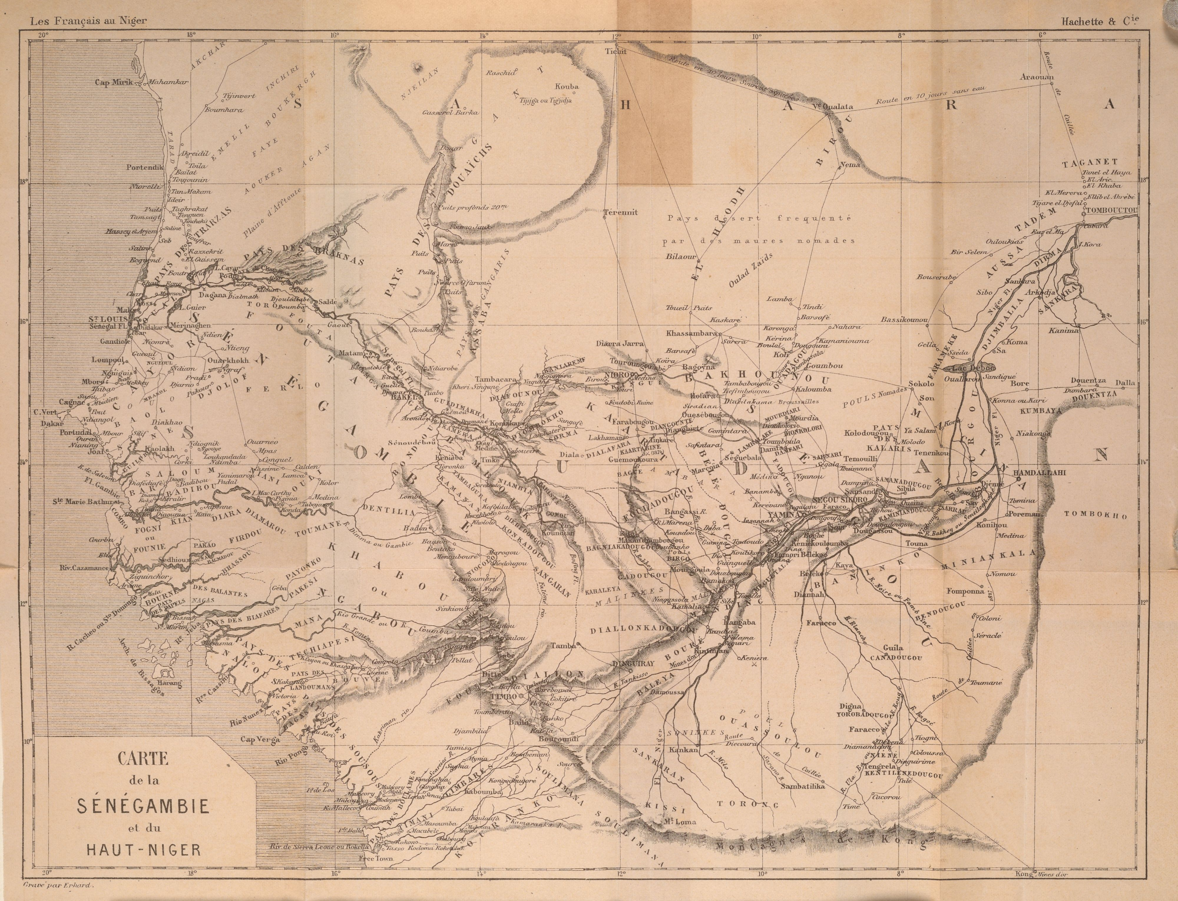 A map of the colony of Senegambia and Niger from 1885.